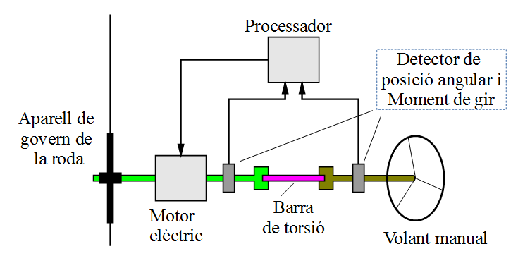 Electric power steering uses an electric motor to help the driver of the vehicle.